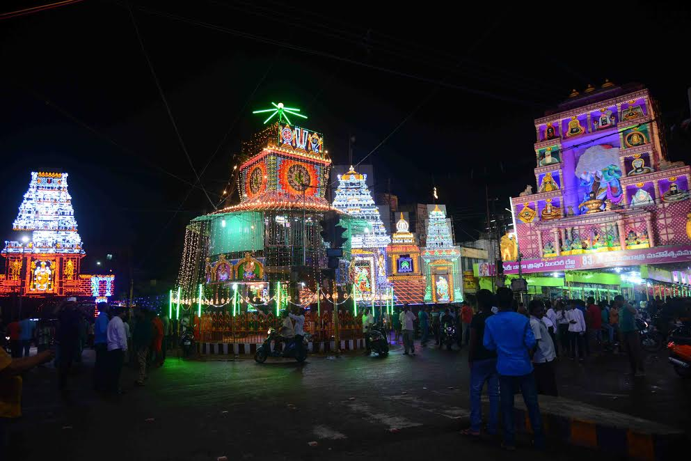 దేవీచౌక్ పేజీలొకి